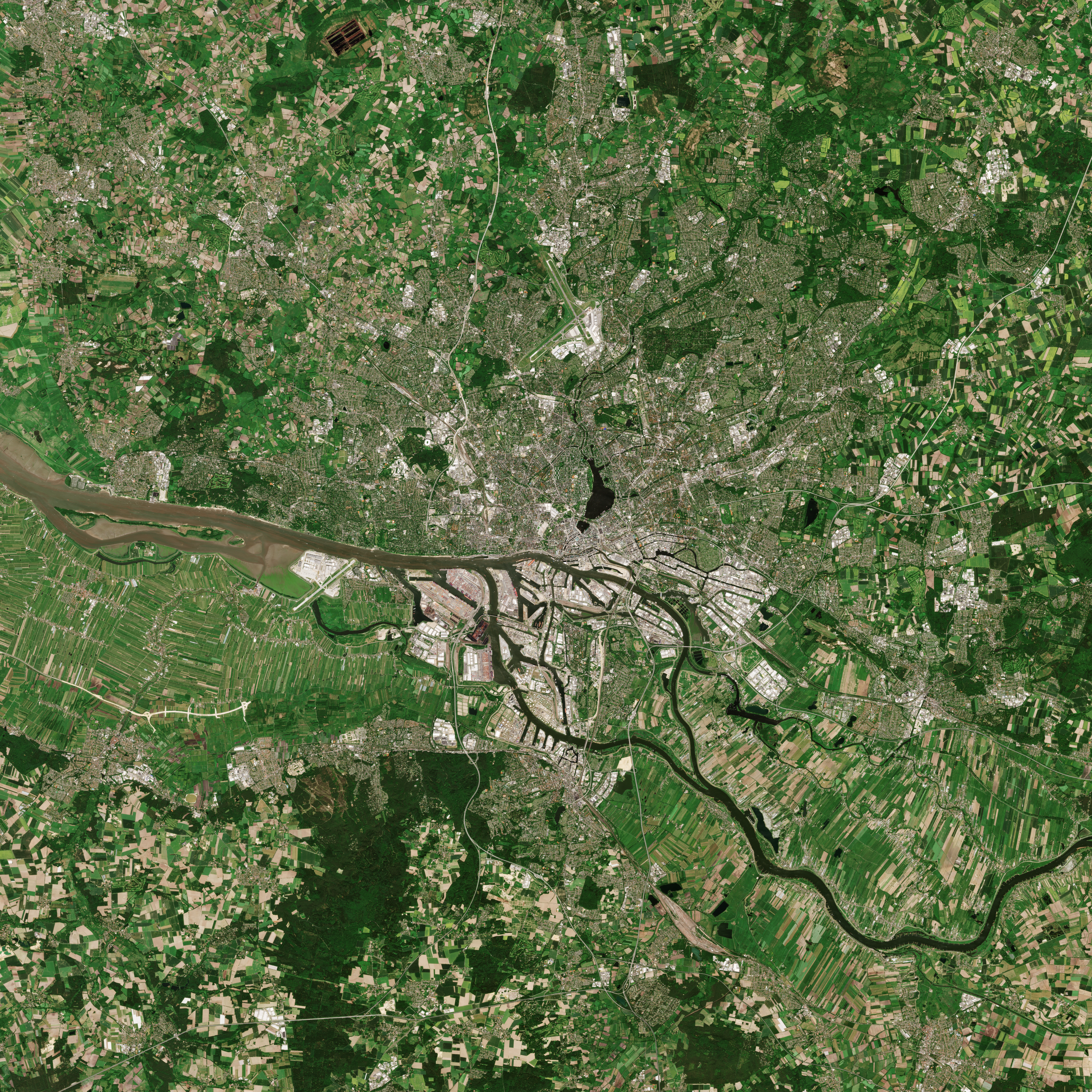 Motive: Hamburg, Germany Date: 2018-05-20 Sensor: MSI on Sentinel-2B Resolution: 10m RGB Composites: True color, Band 4-3-2